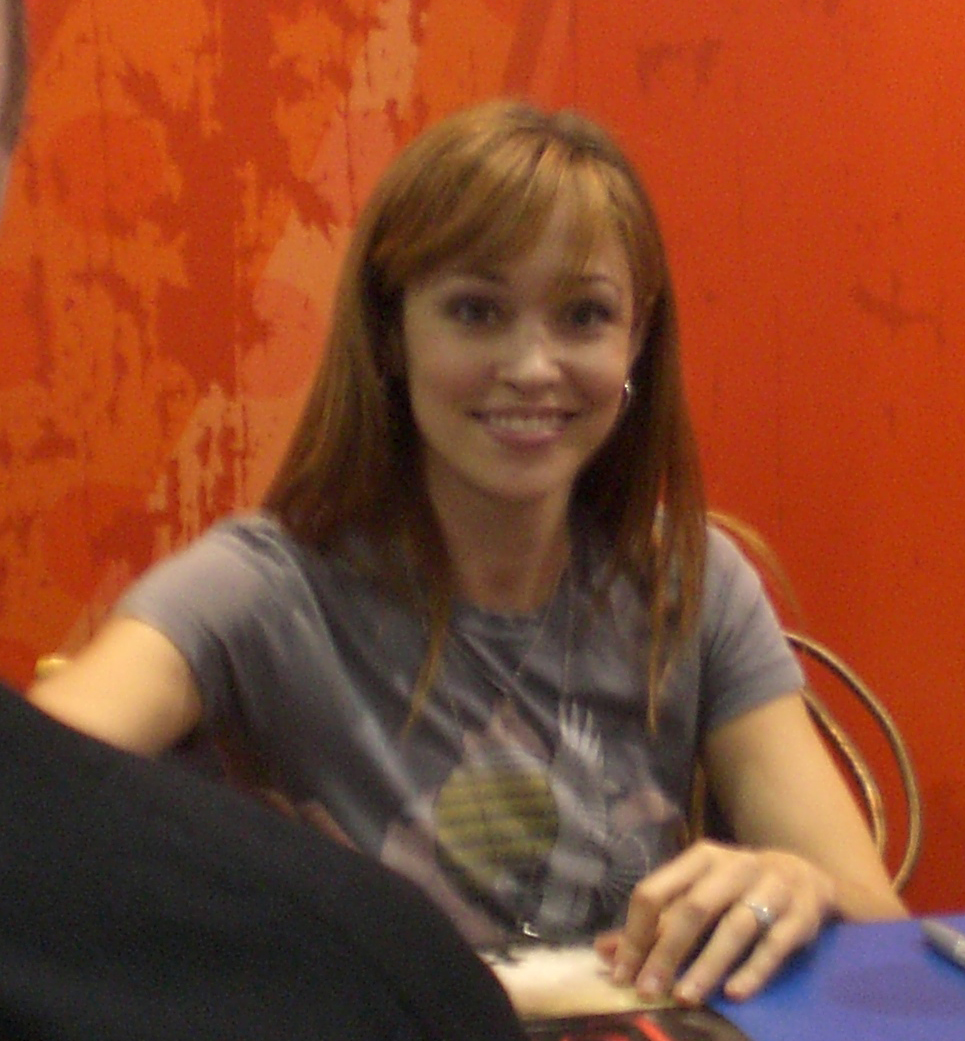 "O.C" star Autumn Reeser takes a moment to smile while signing autographs for "Lost Boys" fans.